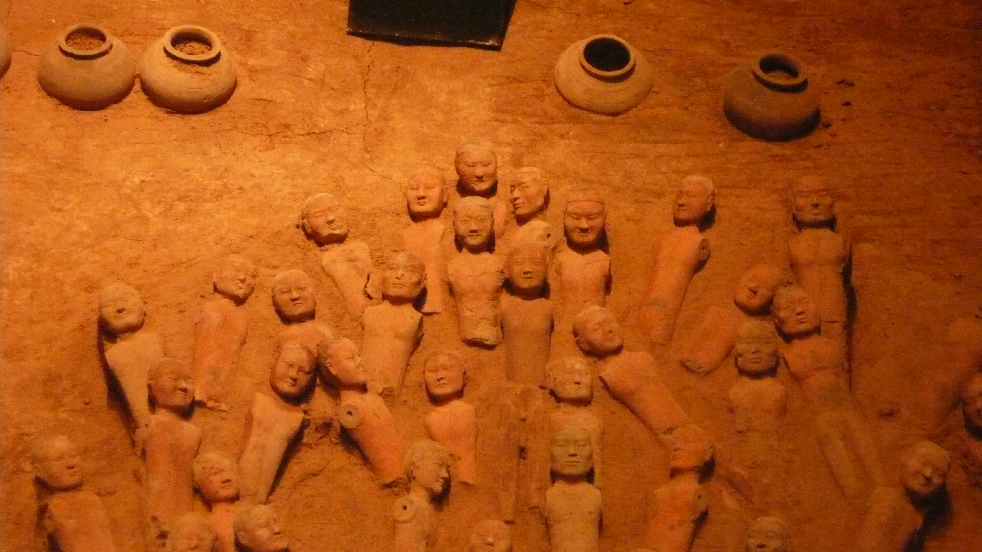 Han Yang Ling - Mausoleum of Jingdi, Han Emperor, Xianyang, near Xi'an